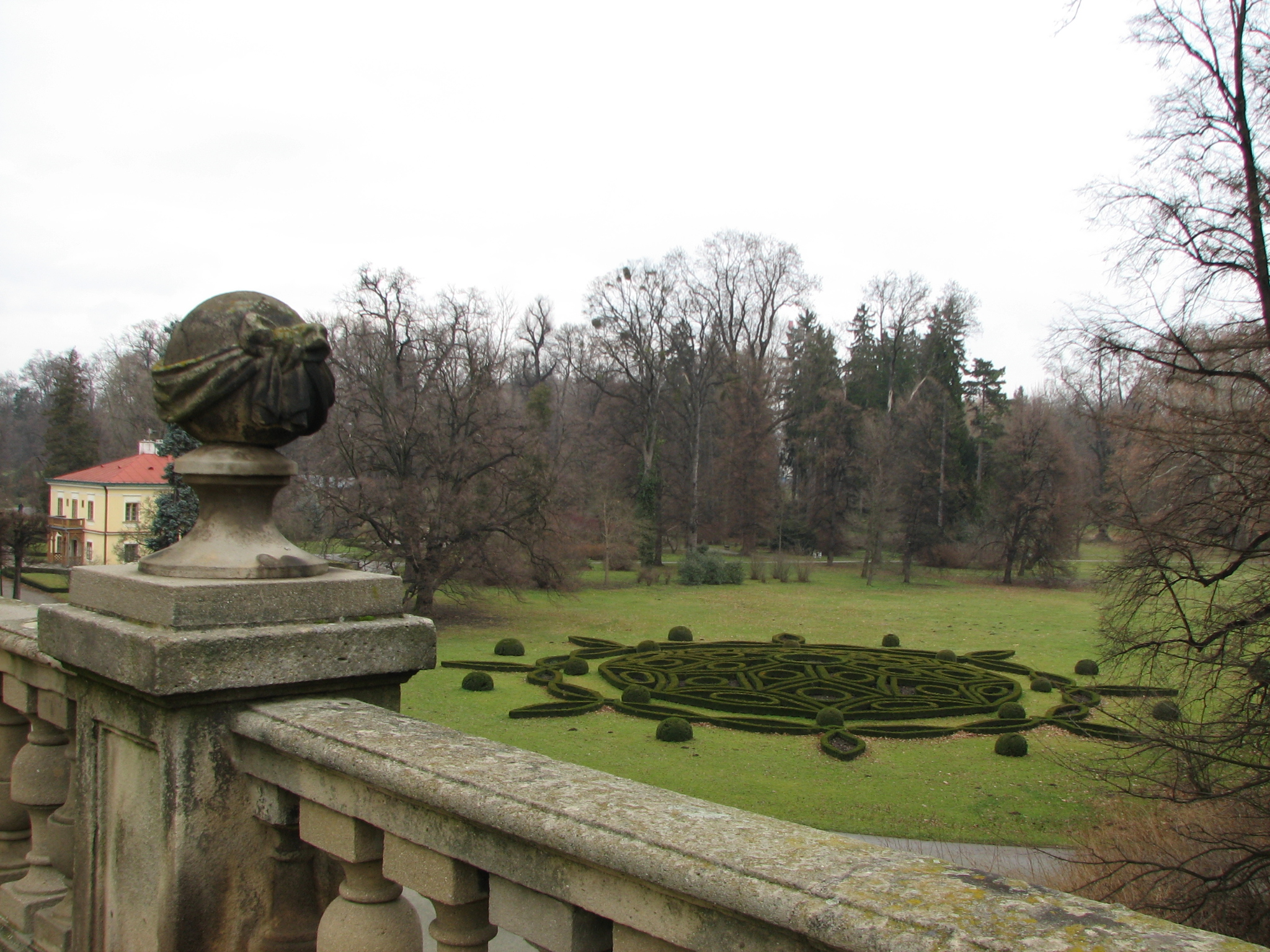 Chateau Gardens in Kroměříž, CZ